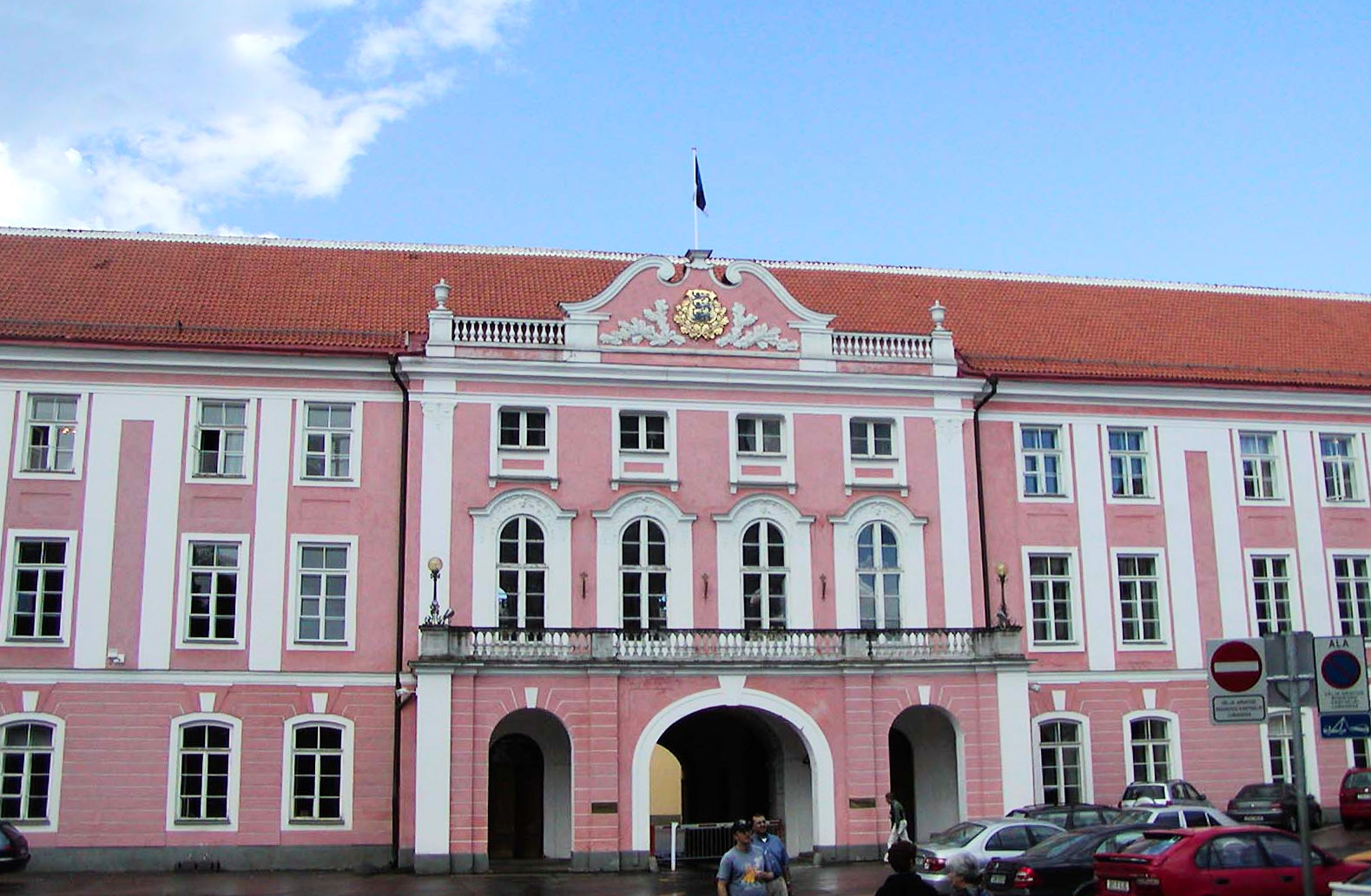 Photo of Estonian parliament building, Tallinn